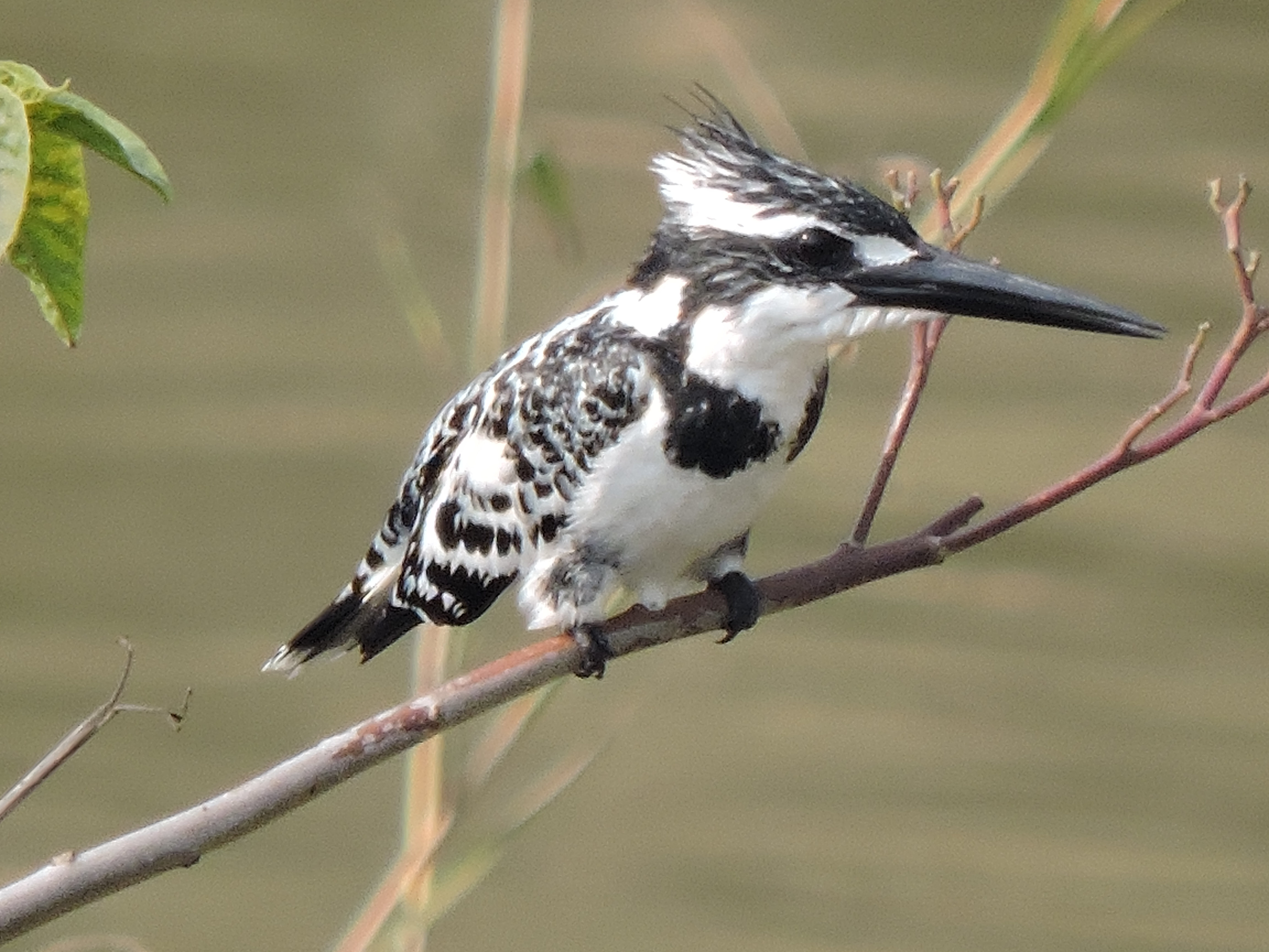 Pied kingfisher, Sukhna lake ,Chandigarh, India